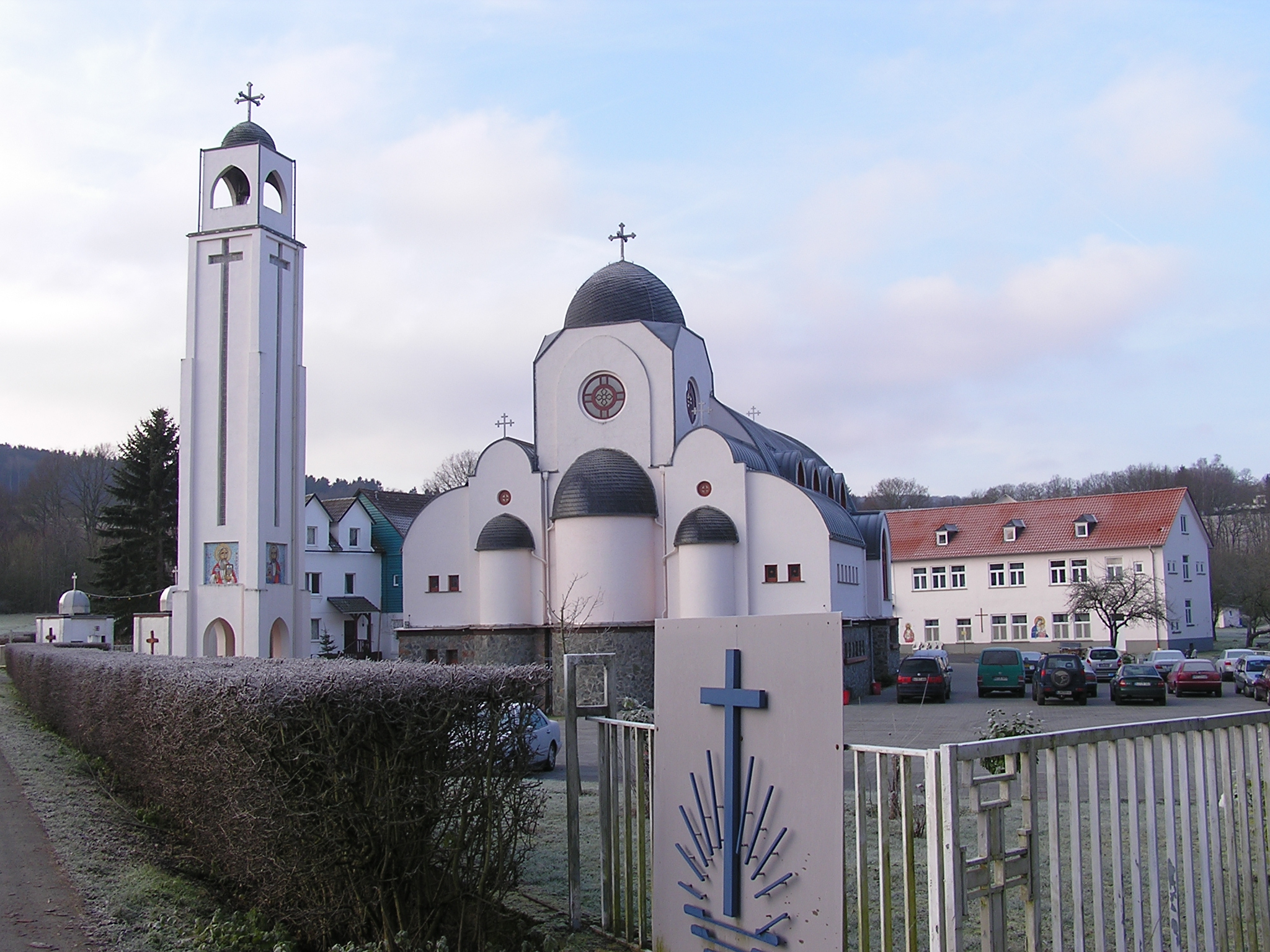 The Coptic Monastery St. Antonius in Waldsolms-Kröffelbach